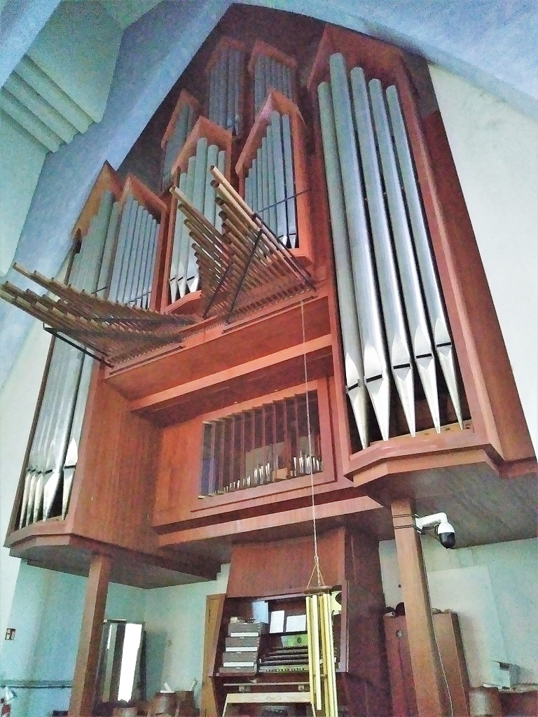 Kirche am Hohenzollernplatz (Berlin)